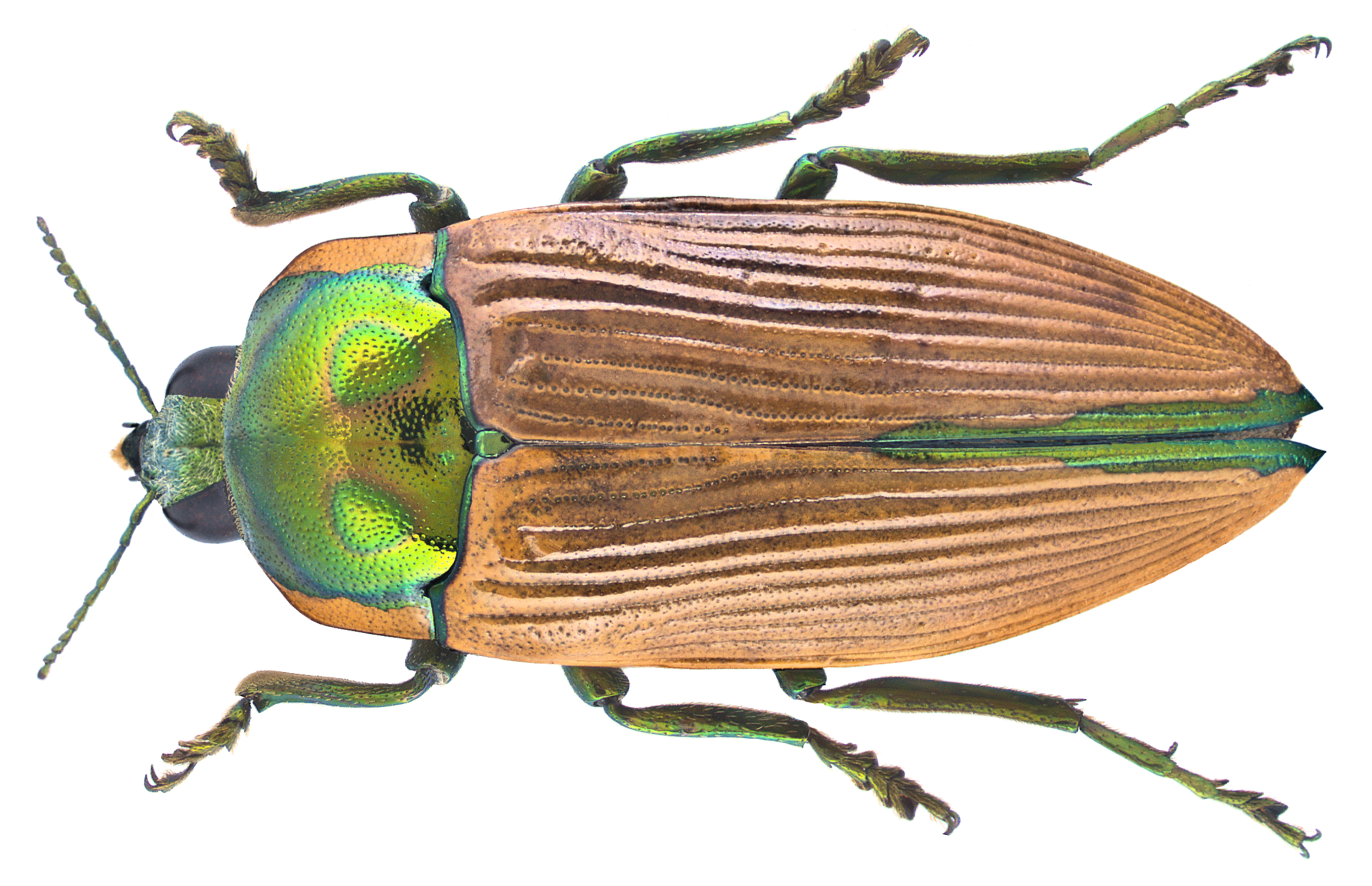 Family: Buprestidae Size: 21,0 mm Location: Australia, NSW, Lot 25 Commission Rd, Yengo NP, Howes Valley leg. det. Vr.R.Bejsak-Colloredo-Mansfeld, 2.XII.2013 Photo: U.Schmidt, 2015